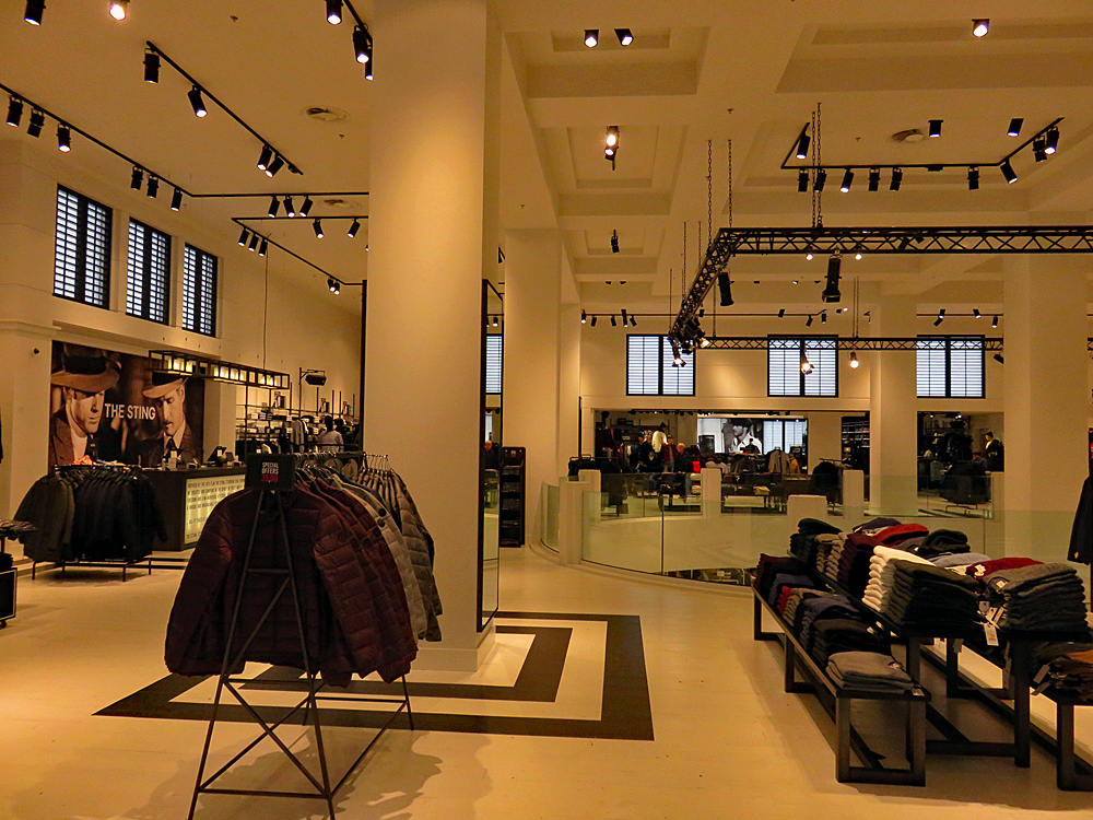 Interior of clothing store The Sting, located at Grote Markt 11 in Haarlem, since 2018.